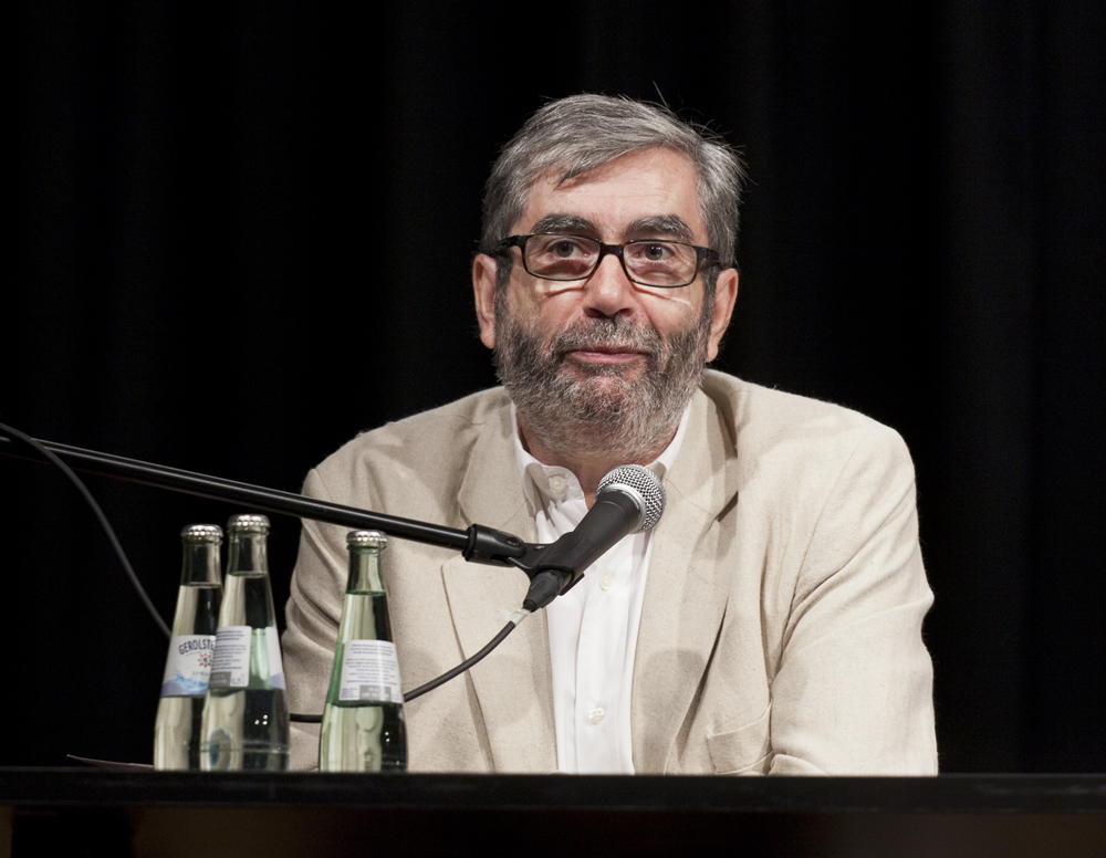 Spanish writer Antonio Muñoz Molina at Cologne